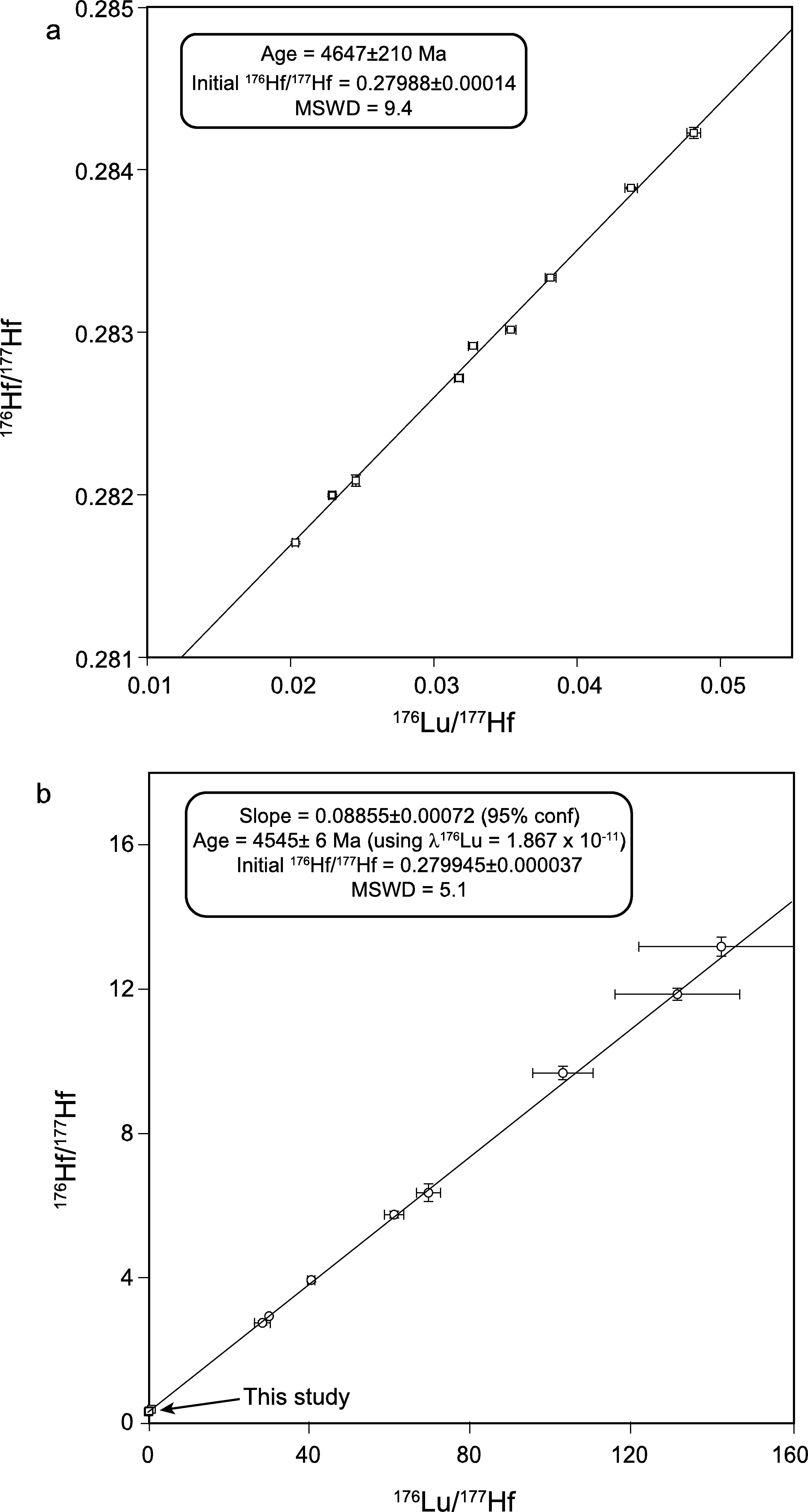 Fig. 2. Lu–Hf isochron diagram obtained (a) on nine silicate fractions of Richardton (square), using λ176Lu = 1.867 × 10−11 yr−1 (Ludwig, 2003), and (b) by combining the silicate fractions of this study with the phosphate fractions (circle) from Amelin (2005). Error bars are 2σ.